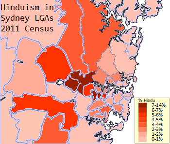 Hinduism in Metropolitan Sydney by LGA as of 2011 Census data.